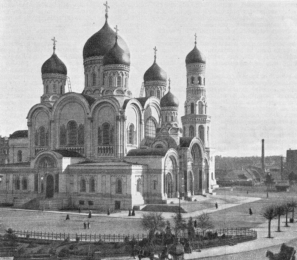 Orthodox holy Alexander Nevsky cathedral in Warsaw shortly after its opening. Demolished in 1926.